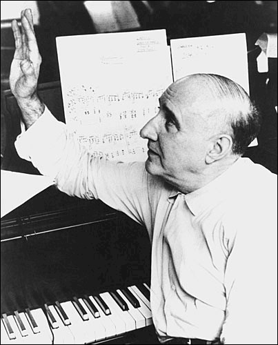 Photo of Dimitri Tiomkin working in the studio on the score of Search for Paradise.